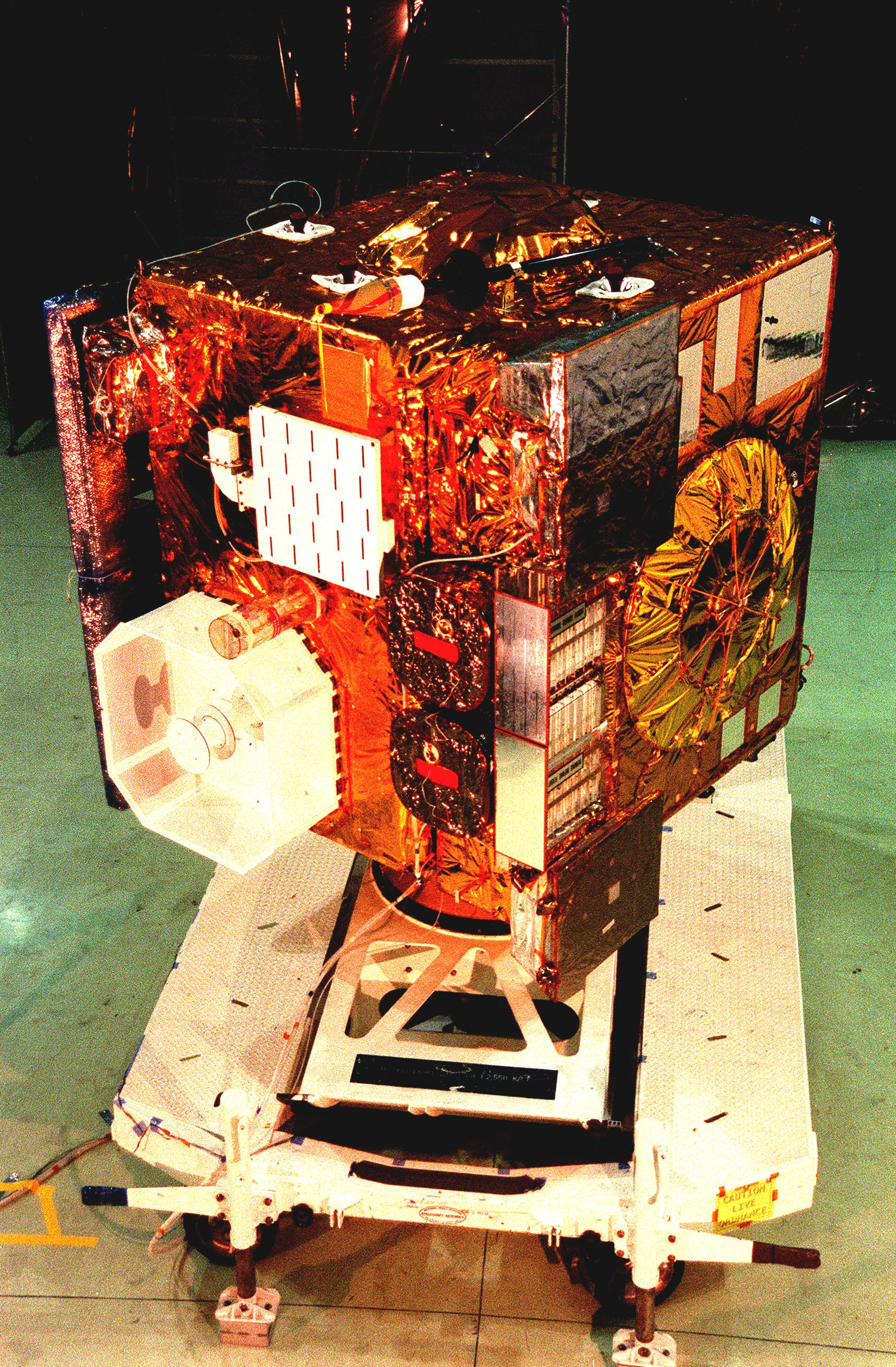 At Astrotech, in Titusville, Fla., the GOES-L satellite sits ready for a media showing. The GOES-L is due to be launched May 15 from Launch Pad 36A aboard an Atlas IIA rocket. Once in orbit, the satellite will become GOES-11, joining GOES-8, GOES-9 and GOES-10 in space. The fourth of a new advanced series of geostationary weather satellites for the National Oceanic and Atmospheric Administration (NOAA), GOES-L is a three-axis inertially stabilized spacecraft that will provide pictures and perform atmospheric sounding at the same time. Once launched, the satellite will undergo checkout and then provide backup capabilities for the existing, aging operational satellites